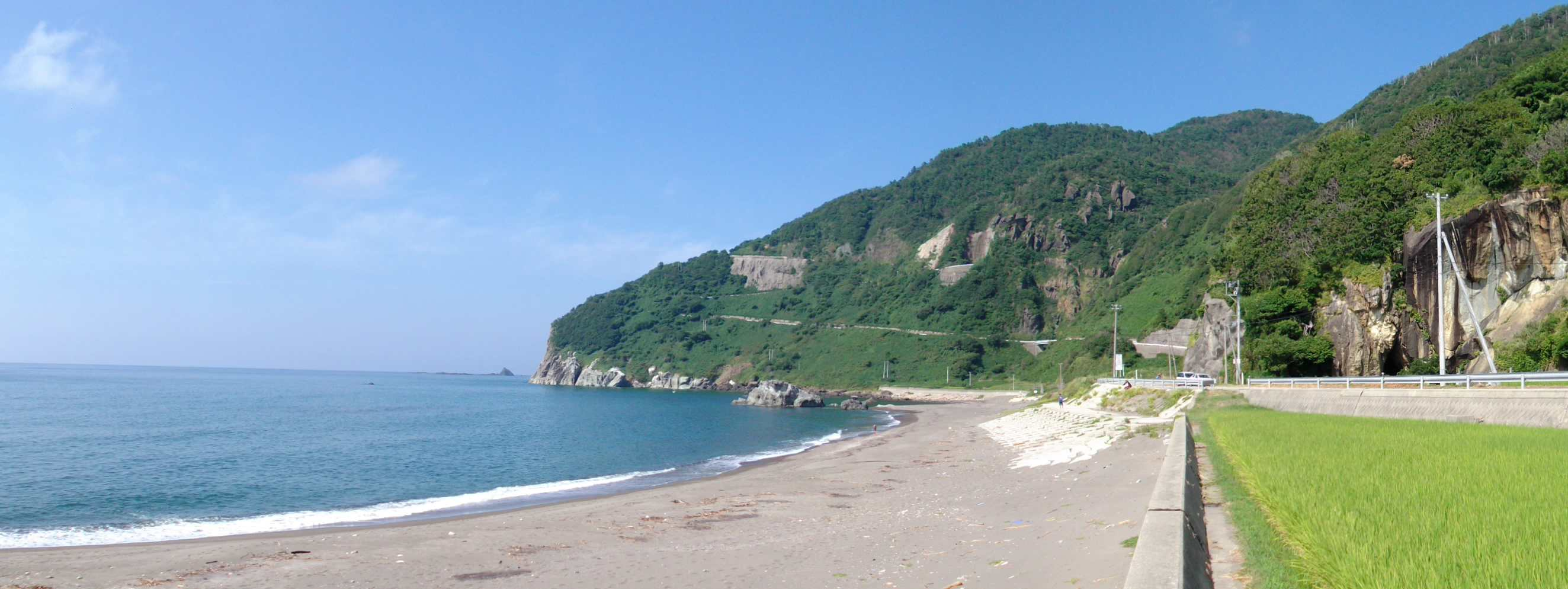 Long Distance triathlon course in Sado island, Japan